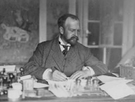 Photojournalist Charles Chusseau-Flaviens at work in his office between 1890 and 1900.